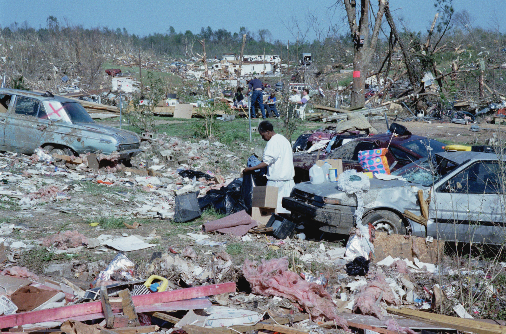 undetermined, Alabama, April 12, 1998 -- Victims salvage possessions in rubble after tornado in the McDonald Chapel section of Jefferson County, Alabama.